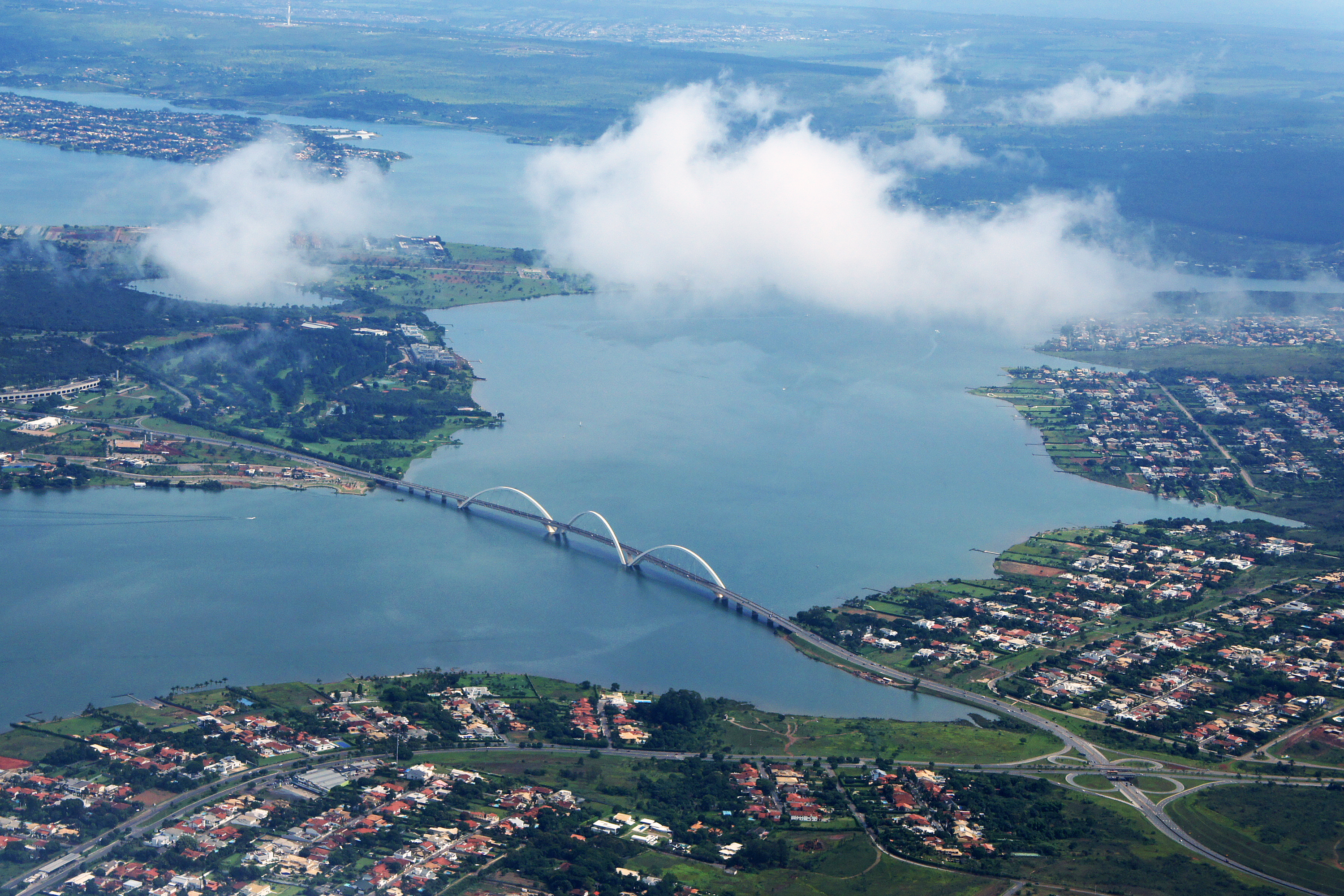 Aereal view of Juscelino Kubitschek bridge (Ponte JK) across Lake Paranoá in Brasília, DF, Brazil.